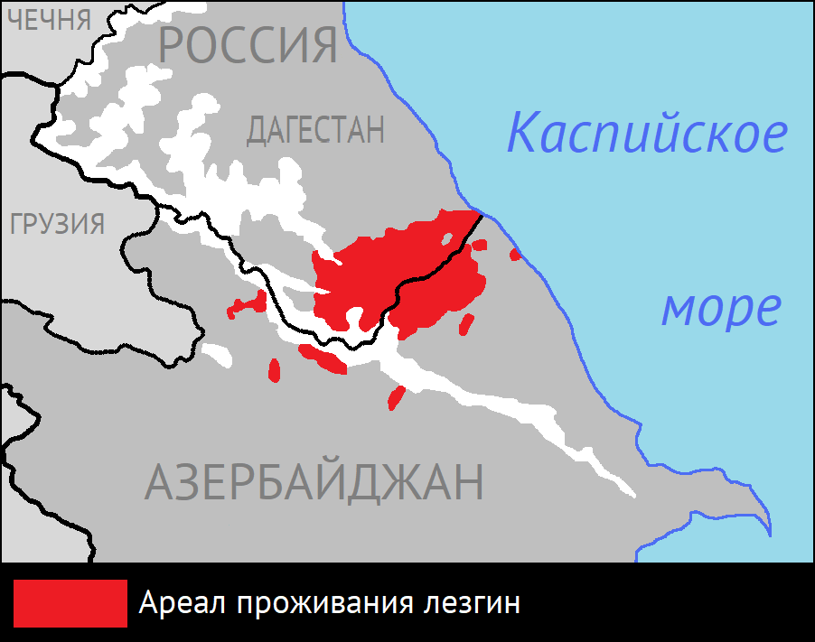 Map showing the distribution of Lezgin people in Dagestan (Russia) and Azerbaijan in 2003. Russian version. Ethnic map of Caucasus region from A. Tsutsayev's Atlas of Ethnopolitical Hisotry of the Caucasus, Moscow, 2007 (АТЛАС ЭТНОПОЛИТИЧЕСКОЙ ИСТОРИИ КАВКАЗА, Цуциев А.А, Москва: Издательство «Европа», 2007)